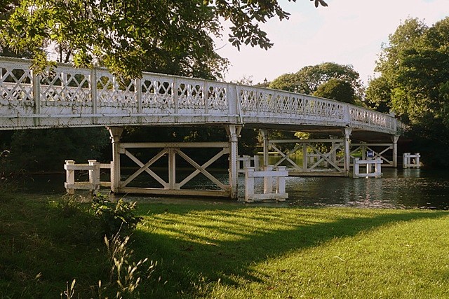 Whitchurch toll bridge View from the Berkshire side, on Pangbourne Meadows.